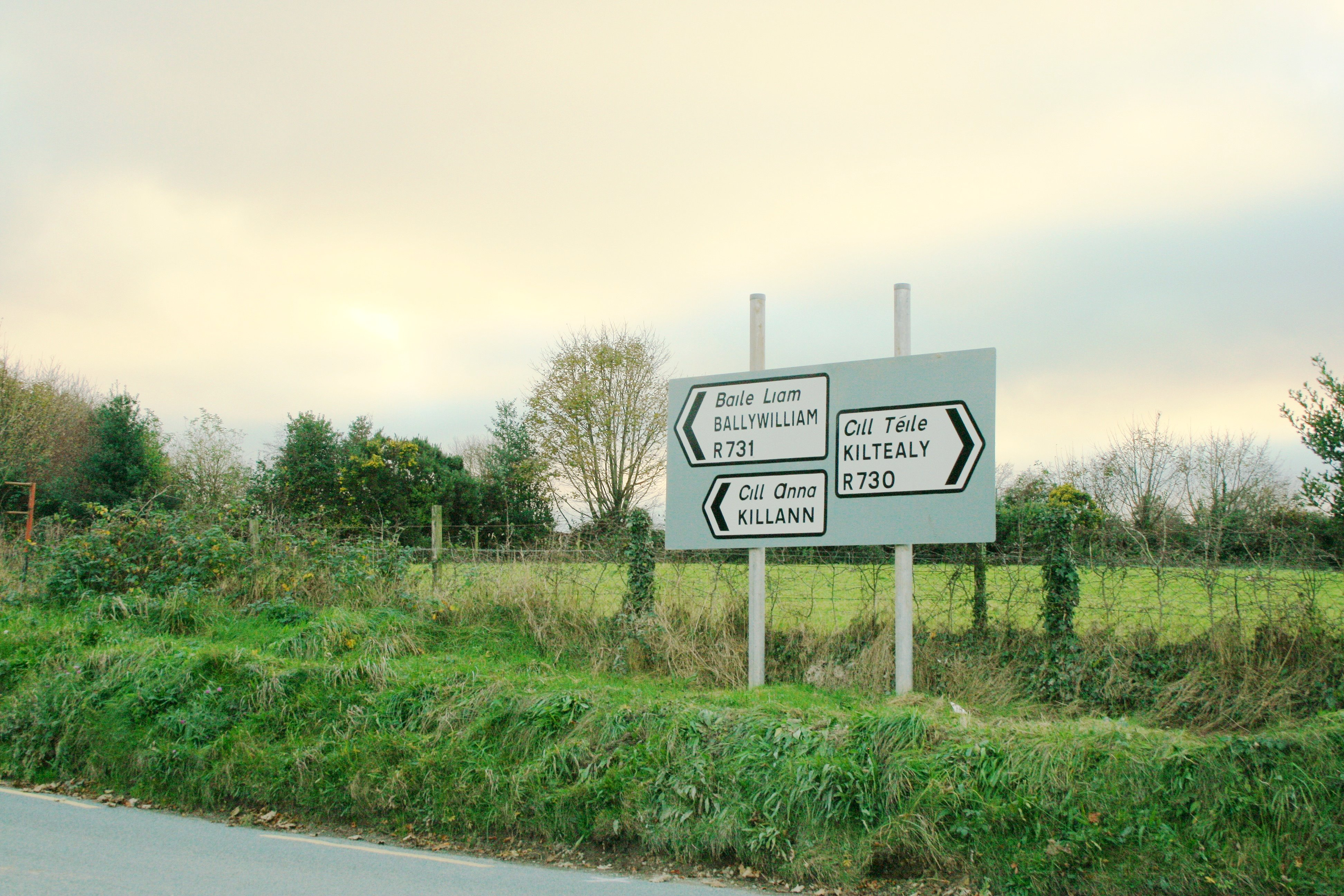 Where the R730 and the R731 meet in County Wexford, Ireland